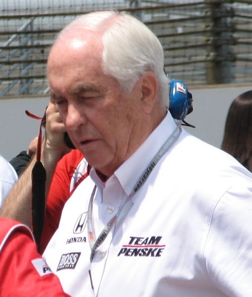 Penske Racing Owner Roger Penske at the Indianapolis Motor Speedway for Miller Lite Carb Day for the 2009 Indianapolis 500.